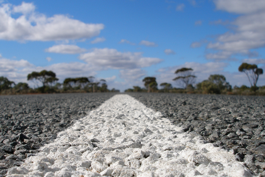 Western Australia, Eyre Highway, longest straight road section in Australia, facing east